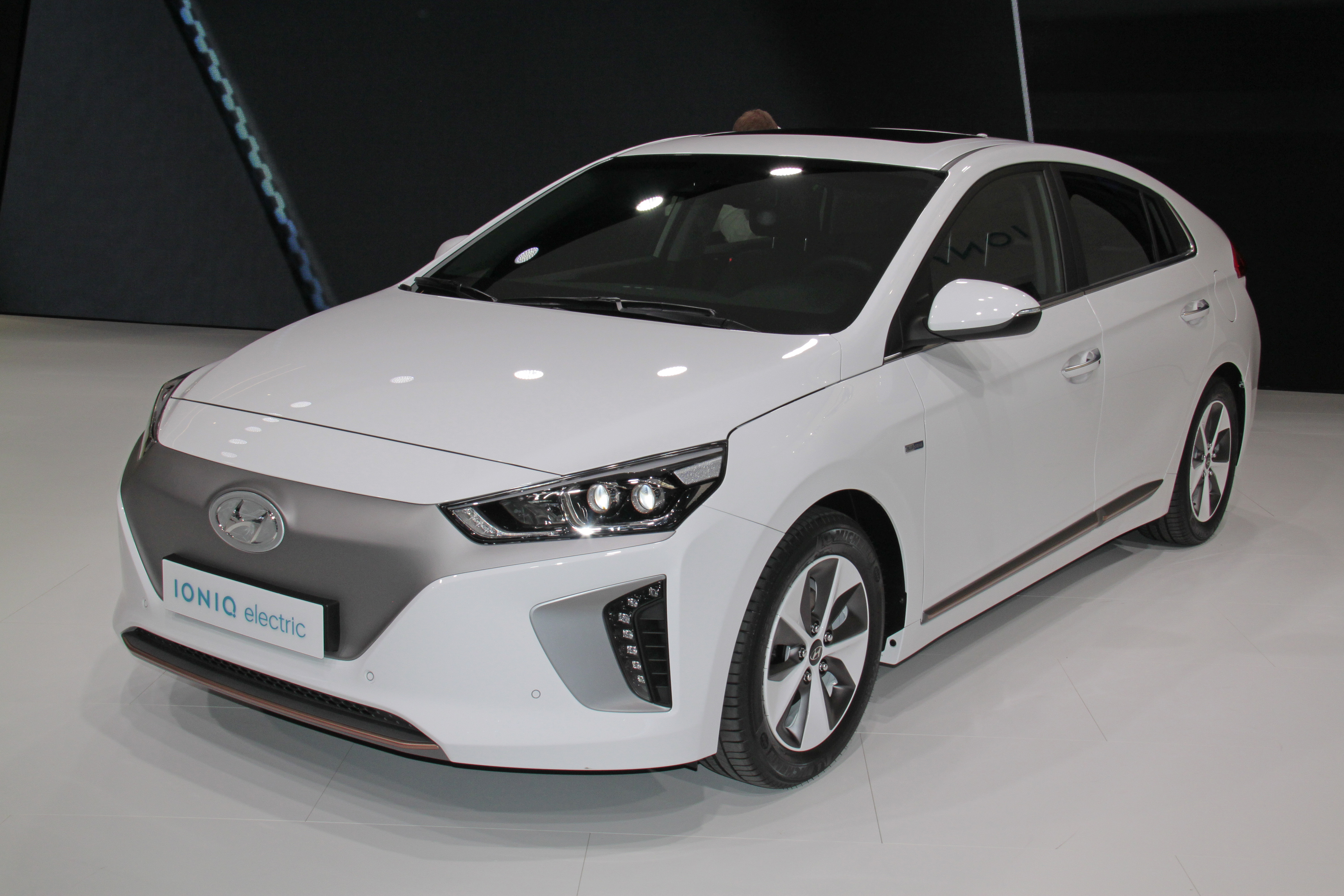 Hyundai Ioniq Electric at the 2016 Geneva Motor Show